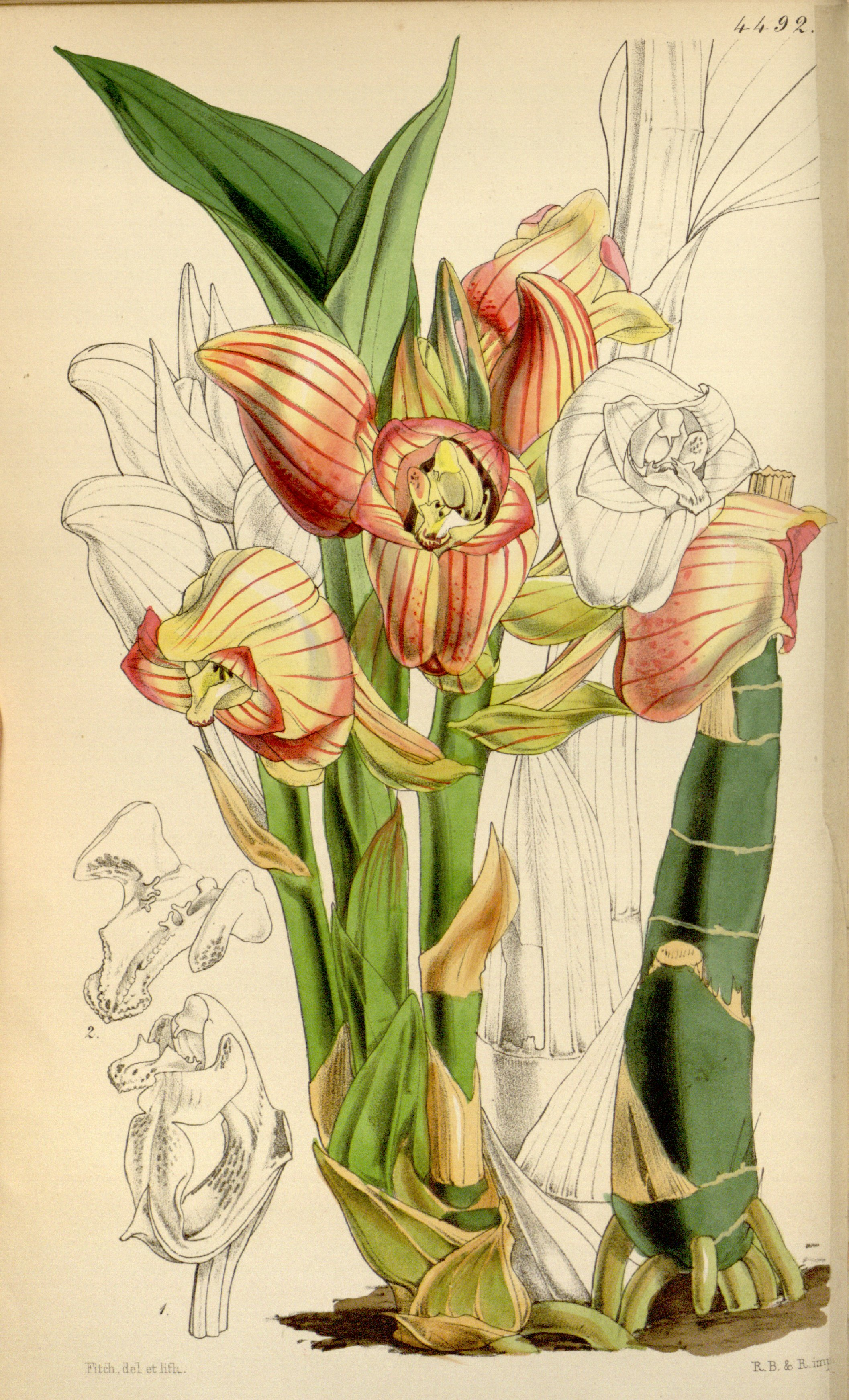 Illustration of Acanthephippium javanicum (Orig. Acanthophippium javanicum)